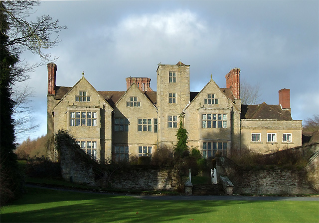 Shipton Hall, Shropshire Shipton Hall is an Elizabethan manor house built of rough grey limestone and set in remote countryside, to the south of Wenlock Edge. It was built in about 1587 by Richard Lutwyche, who gave it to his daughter on her marriage to Thomas Mytton...some dowry! It is still a family home in 2008. .